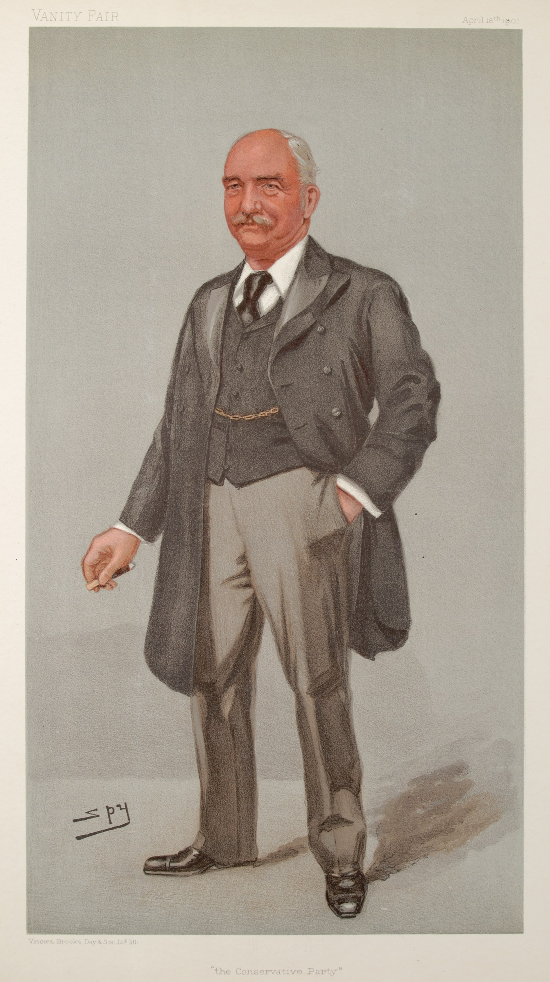 Men of the Day No. 806: Caricature of Mr Richard William Evelyn Middleton (1846-1905). Caption read "the Conservative Party". Middleton was was Conservative Party Chief Agent from 1885 to 1903.